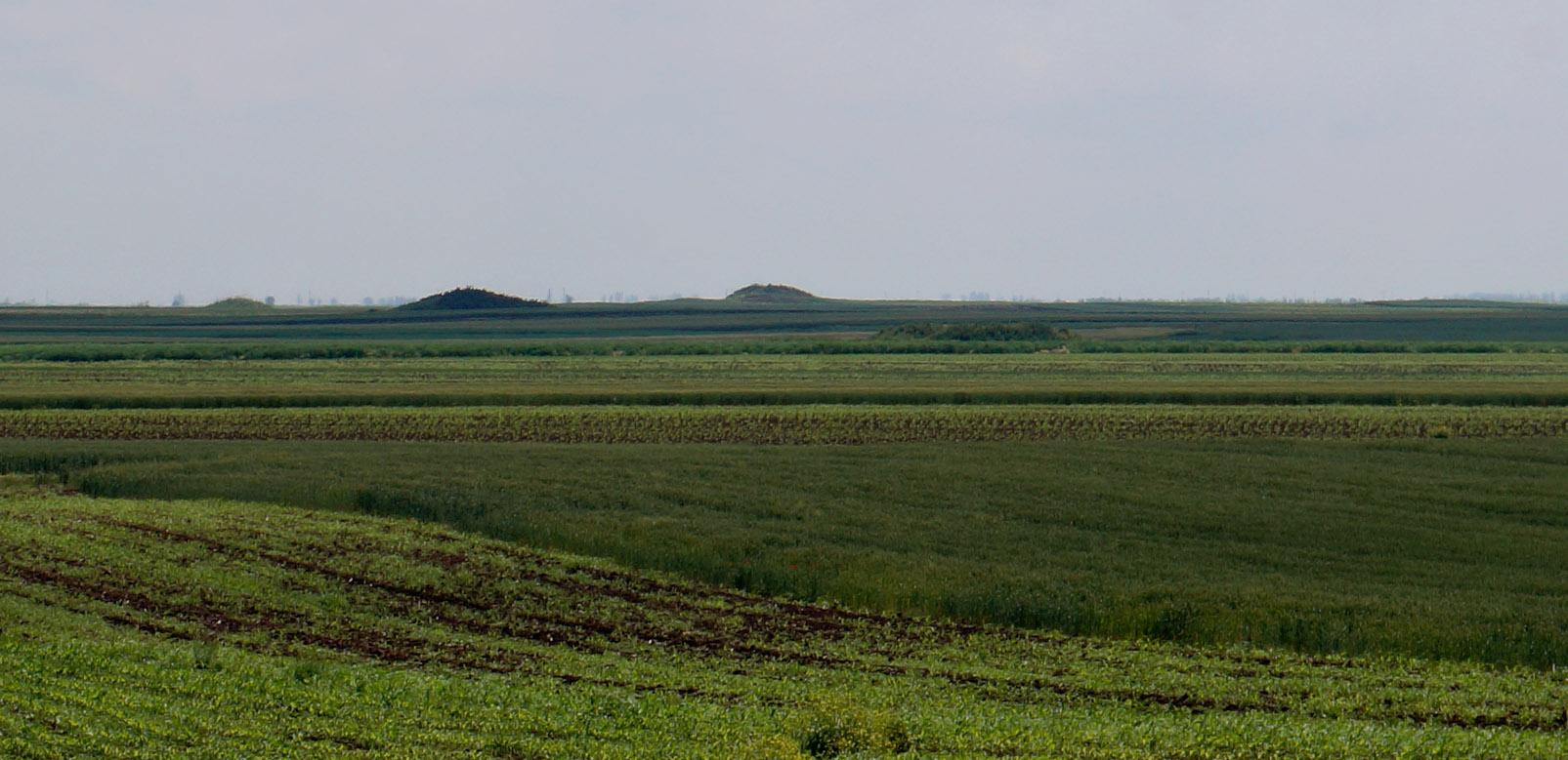 A view of four kurgans put in setting of flat landscape of Banat, Serbia. There is a continual line of watchills used to secure the safety of the ancient builders, whoever they were.